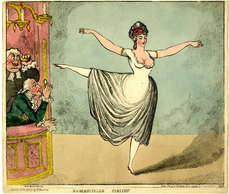 Madamoiselle Parisot in 1796.